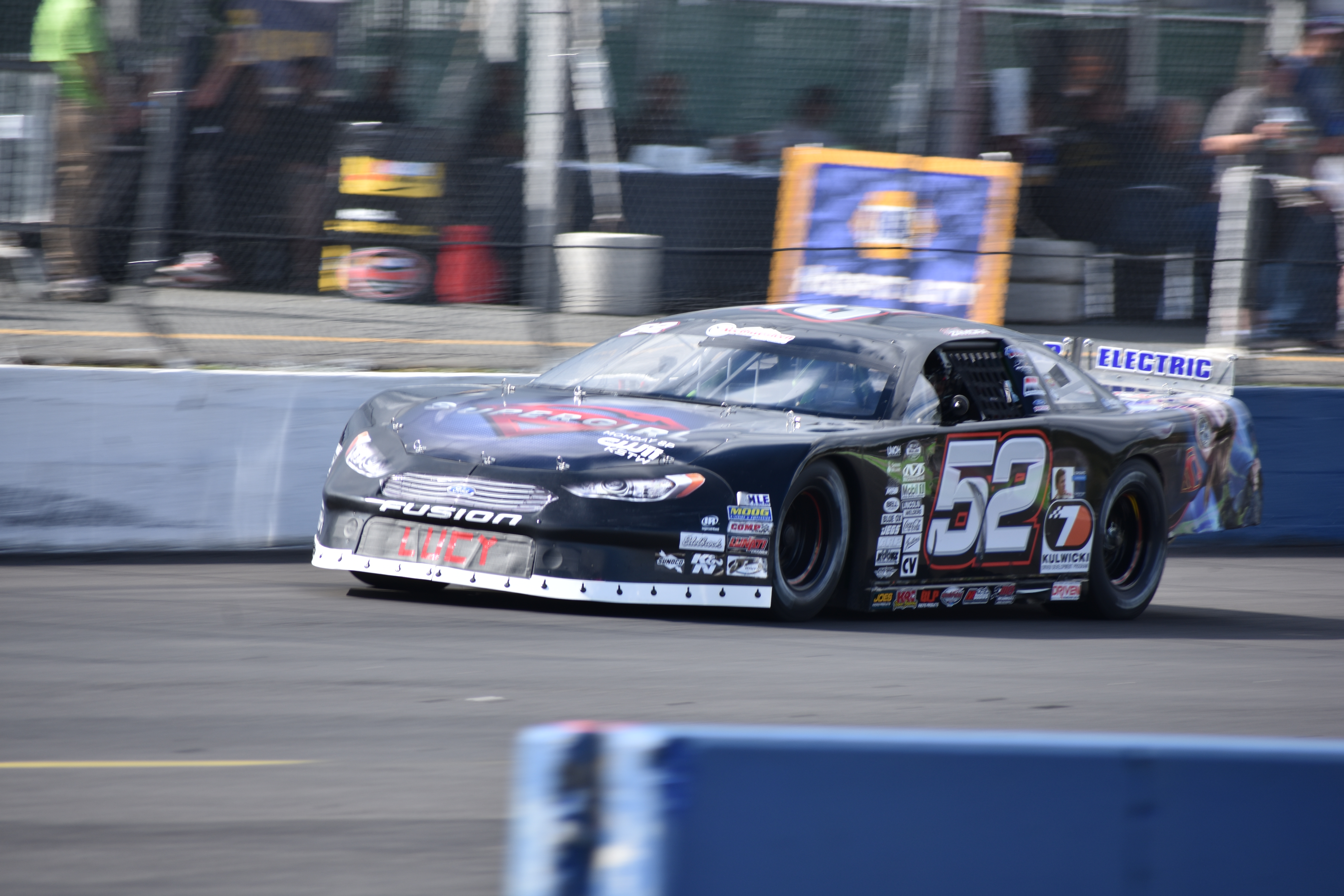 Brittney Zamora during qualifying at Evergreen Speedway on August 11, 2018.